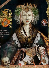 Isabella of Portugal (1428-1496), queen of Castile